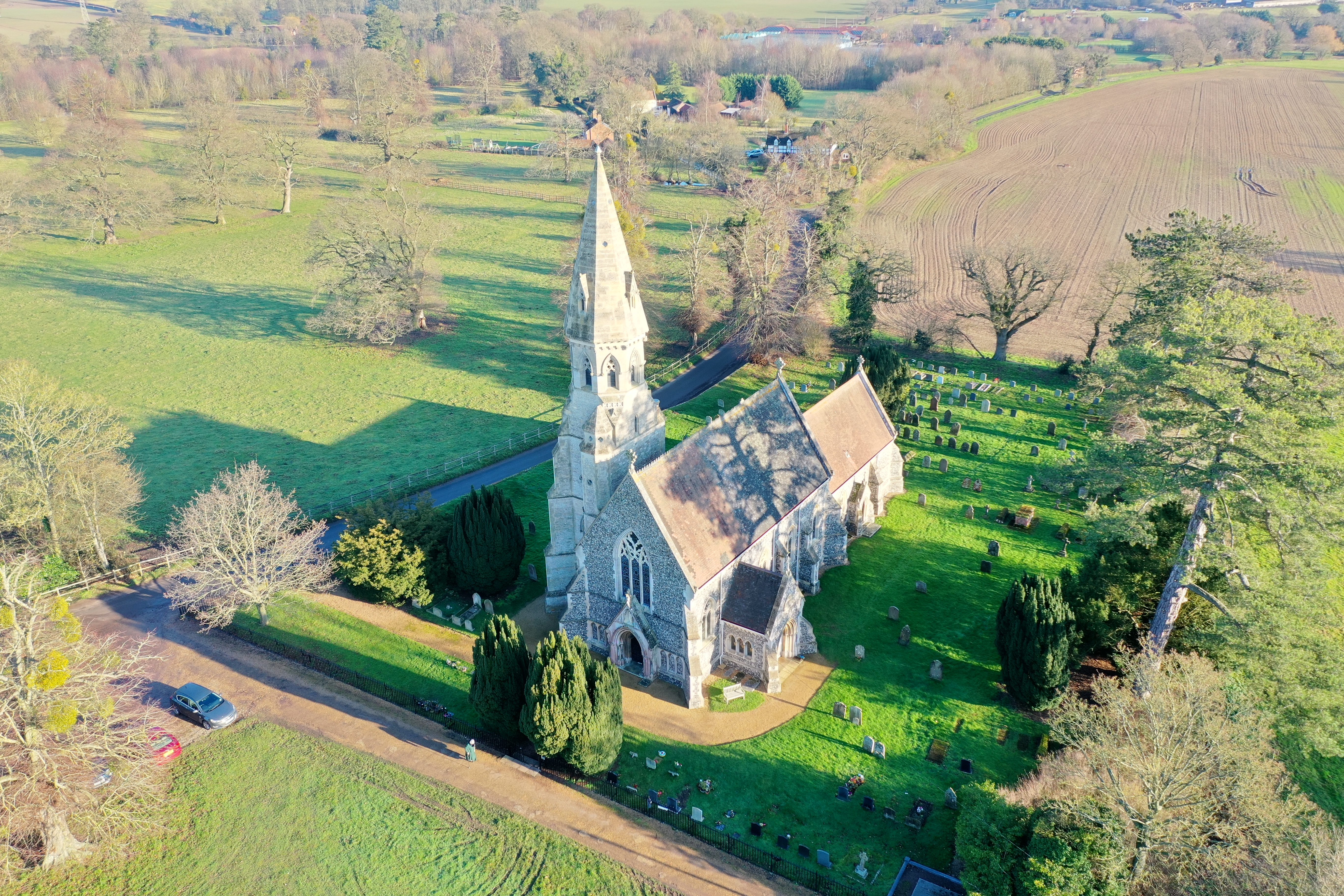 Drone photograph of the Church of Saint Andrew, Framingham Pigot in Norfolk, UK